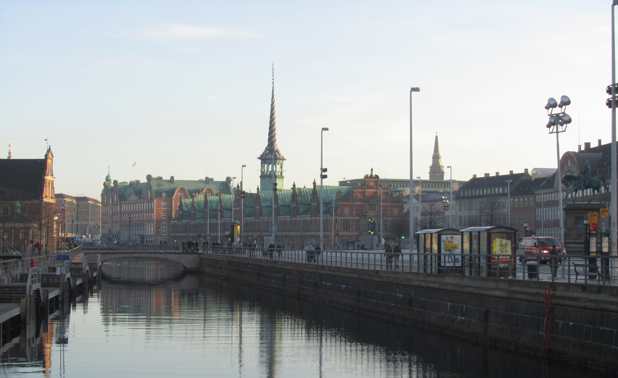 Børsen exchange in Copenhagen